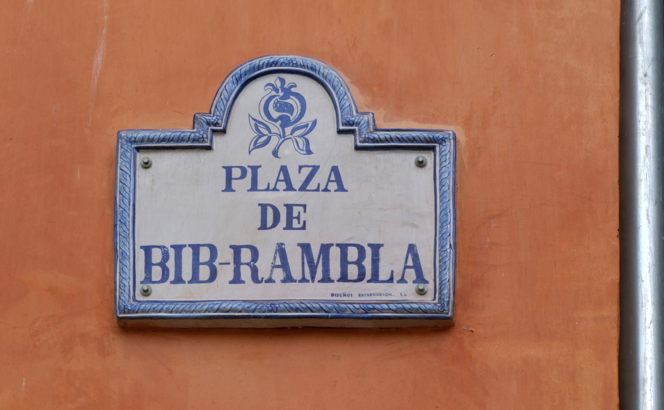 Spain, Granada, Plaza de Bib-Rambla